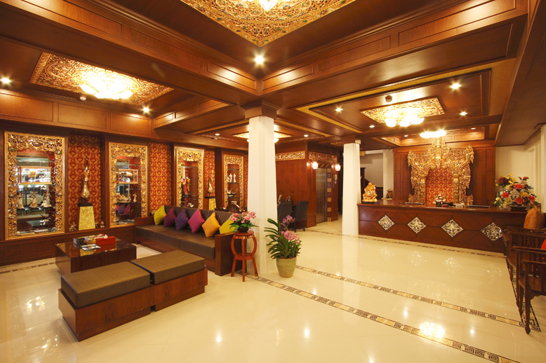 A photo of the hotel lobby at Rayaburi Hotel Patong.